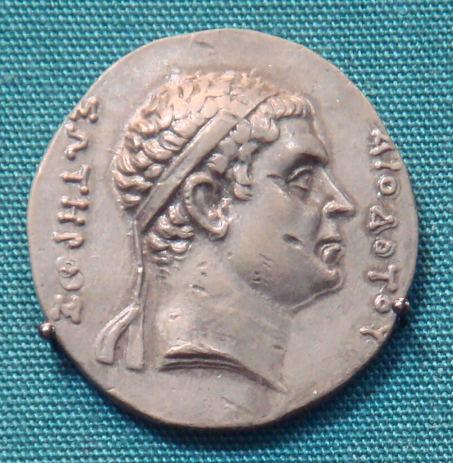 Agathokles Coin With Diodotus Sotiros